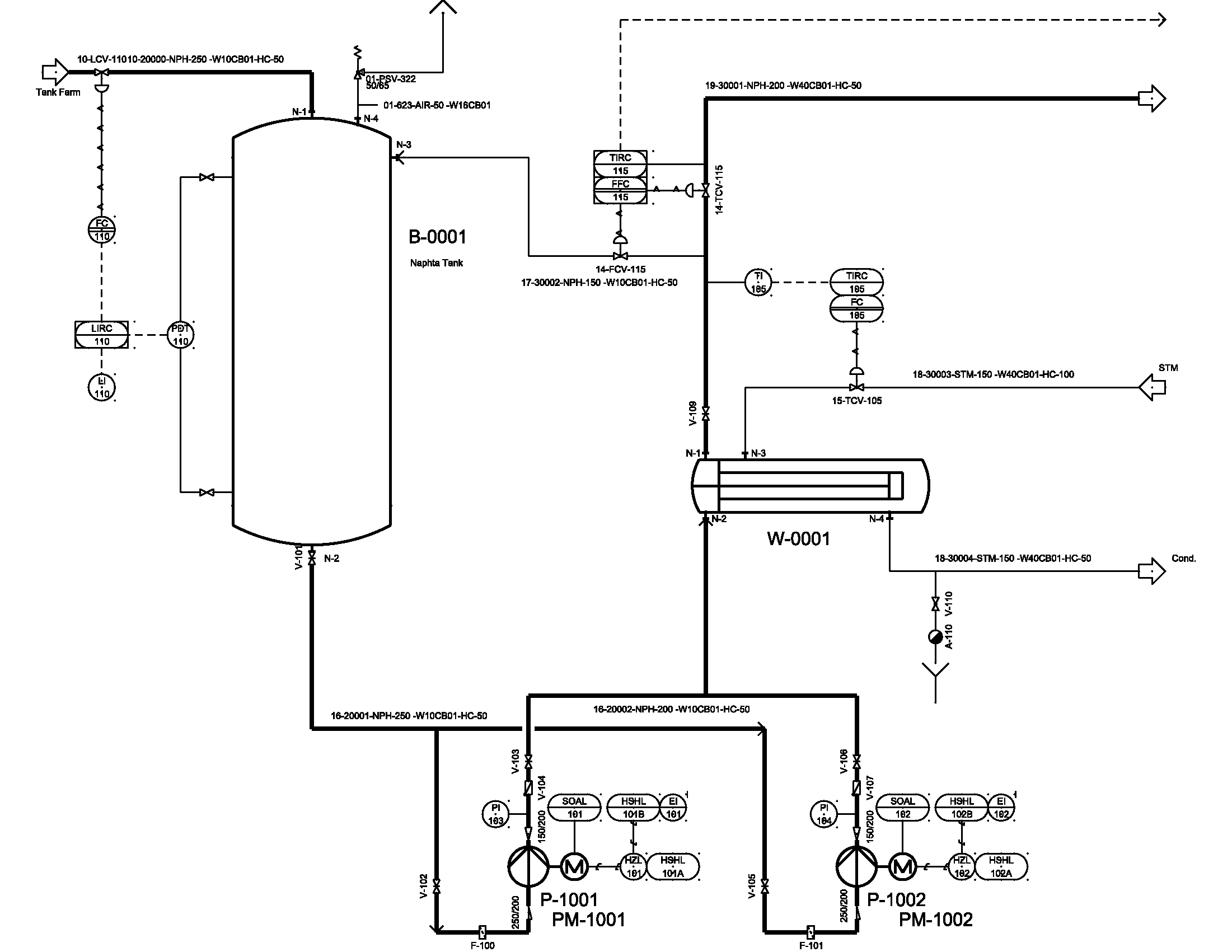 Sample P&ID according to EN ISO 10628